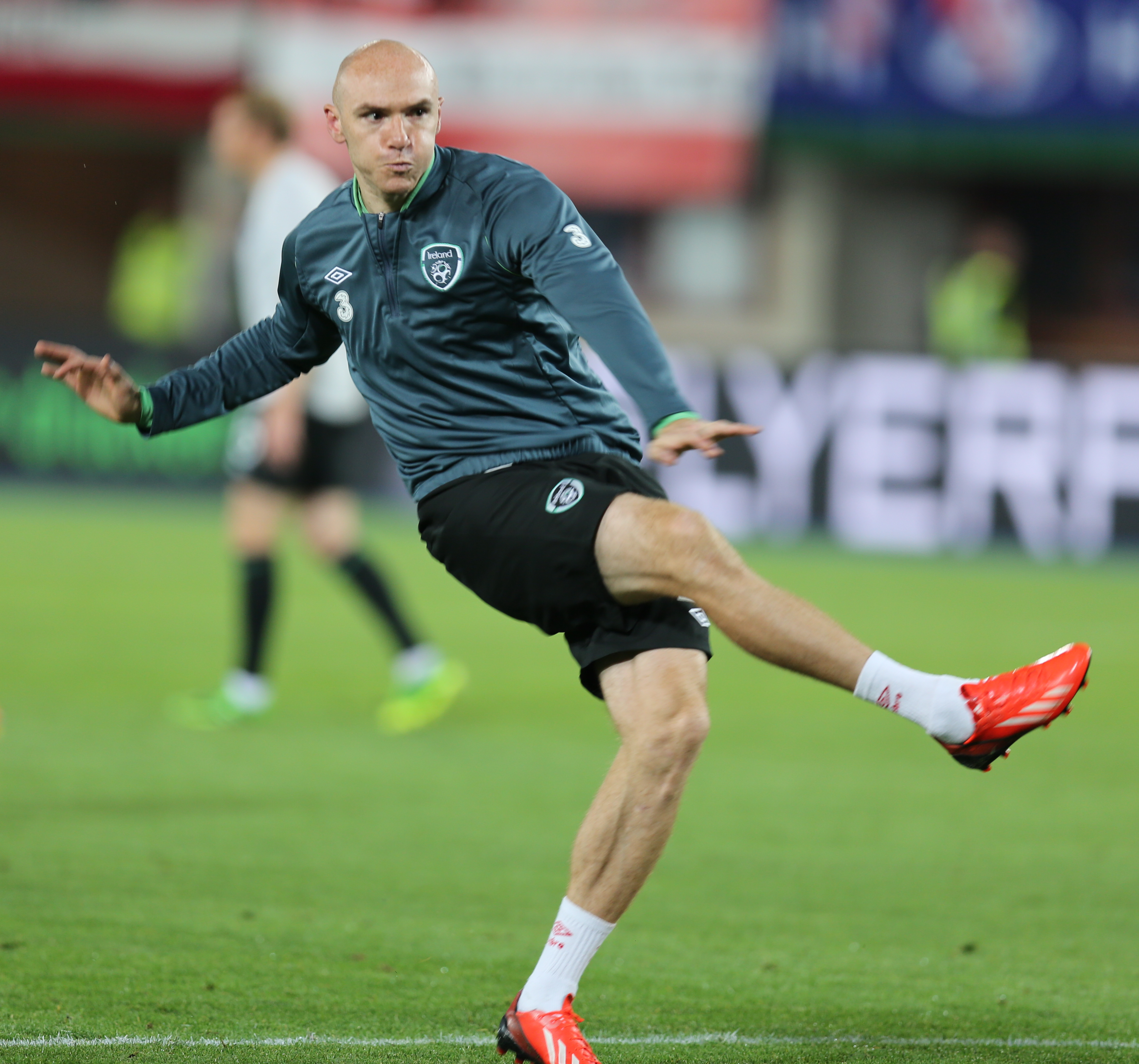 2014 FIFA World Cup qualification (UEFA), Group C: Republic of Ireland national football team at 10. September 2013 before the match against the Austria national football team (0:1) in the Ernst-Happel-Stadion in Vienna. Here:Conor Sammon, Irish striker. The making of this work was supported by Wikimedia Austria. For other files made with the support of Wikimedia Austria, please see the category Supported by Wikimedia Österreich.